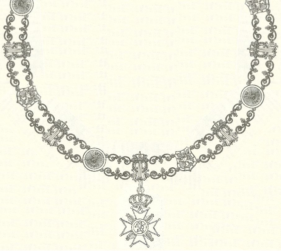 Collar of the Order of Saint Olaf. Norway